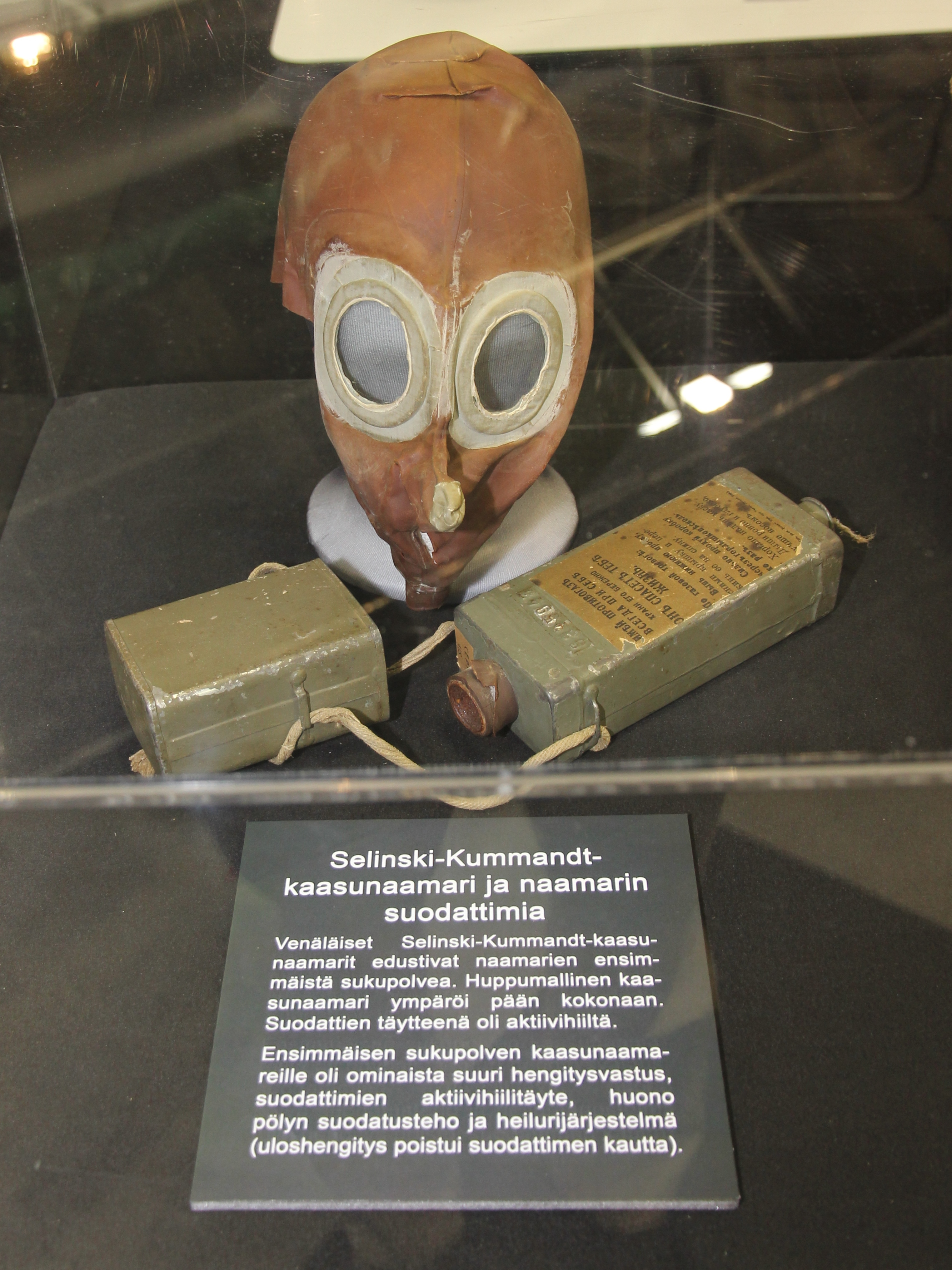 Imperial Russian World War I Selinski-Kummandt gas mask and filter. Photographed at Finnish military museum exhibition stall at Comprehensive security exhibition 2015 in Tampere.